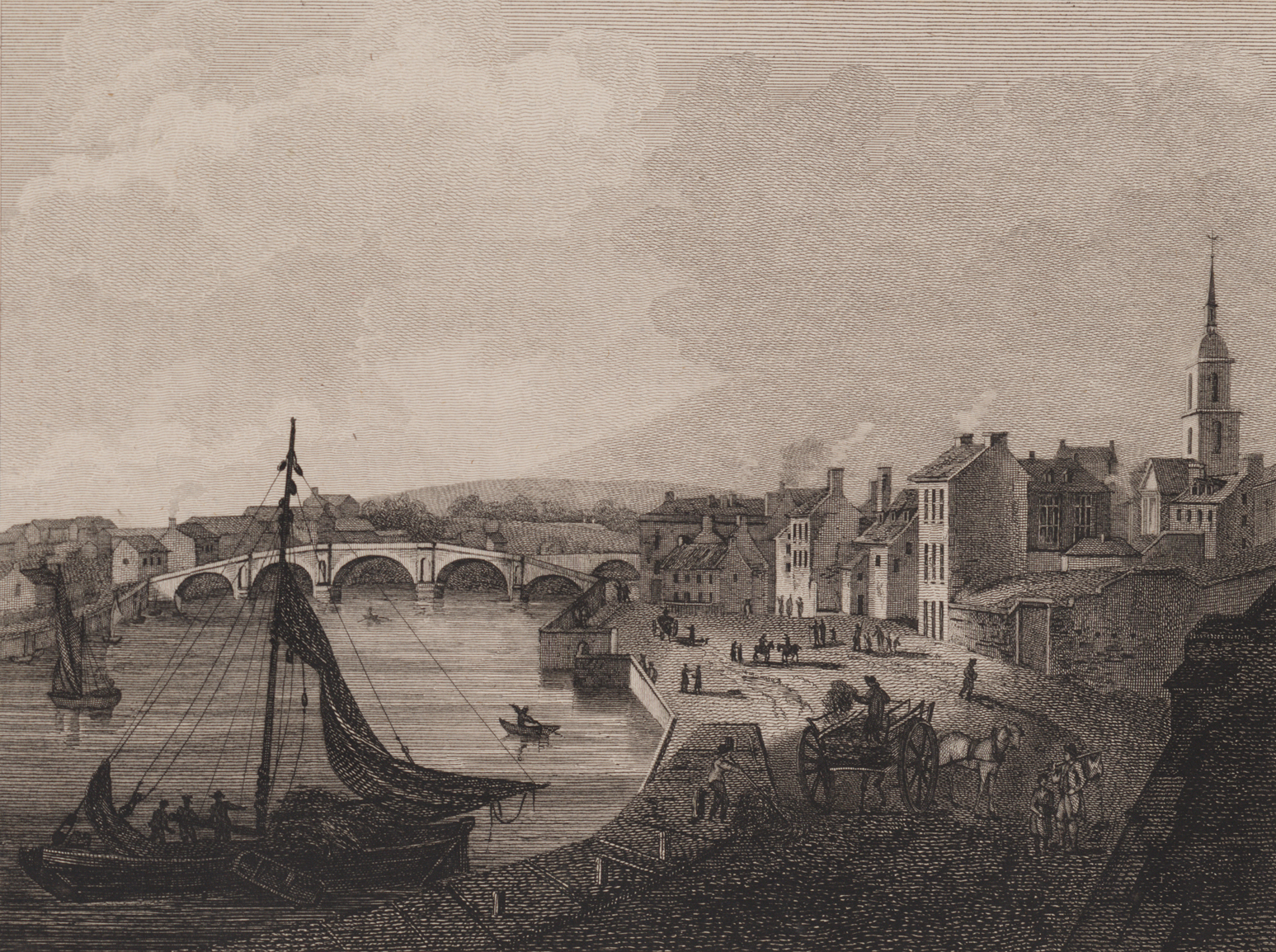 Plate XXV/b - John Claude Nattes made drawings of suitable scenes on the spot; etchings are by James Fittler.